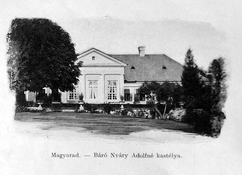 Manor in Santovka